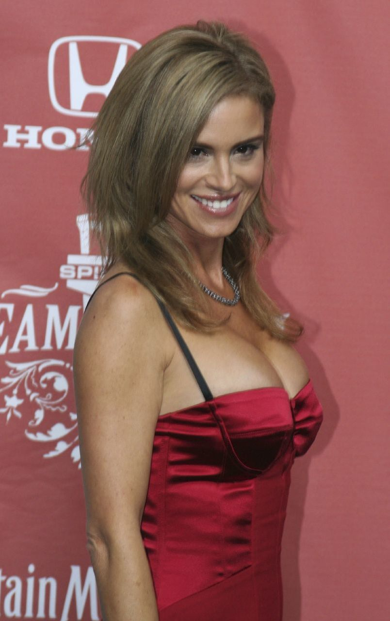 American actress Betsy Russell. Taken at the 2007 Scream Awards.